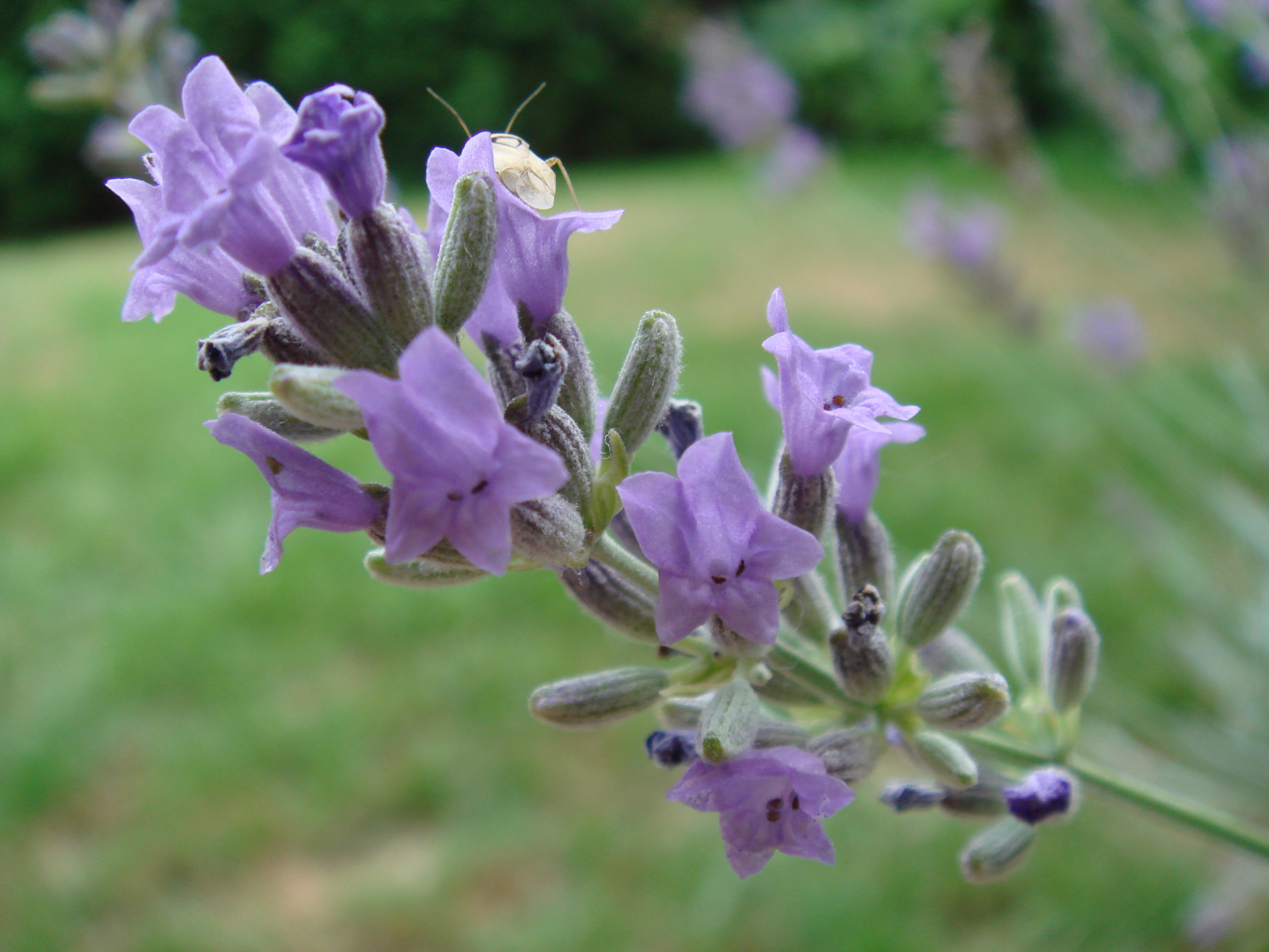 Lavandula flower